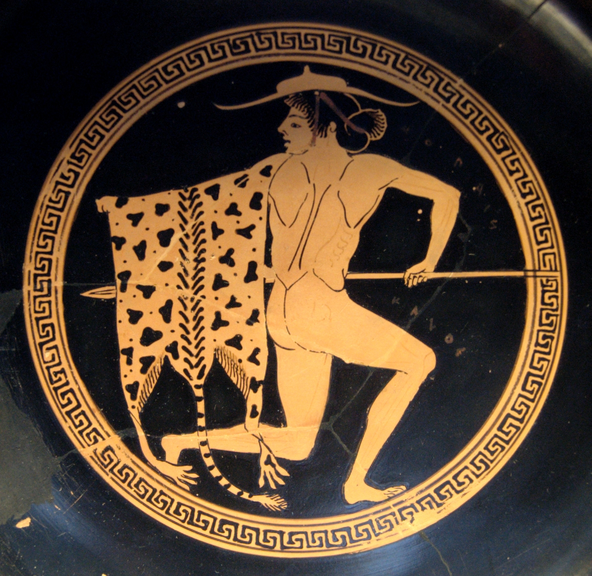 Youth with a spear, a petasos and a leopard skin over his arm (a hunter?). Tondo of an Attic red-figure kylix, ca. 490 BC. From Vulci.